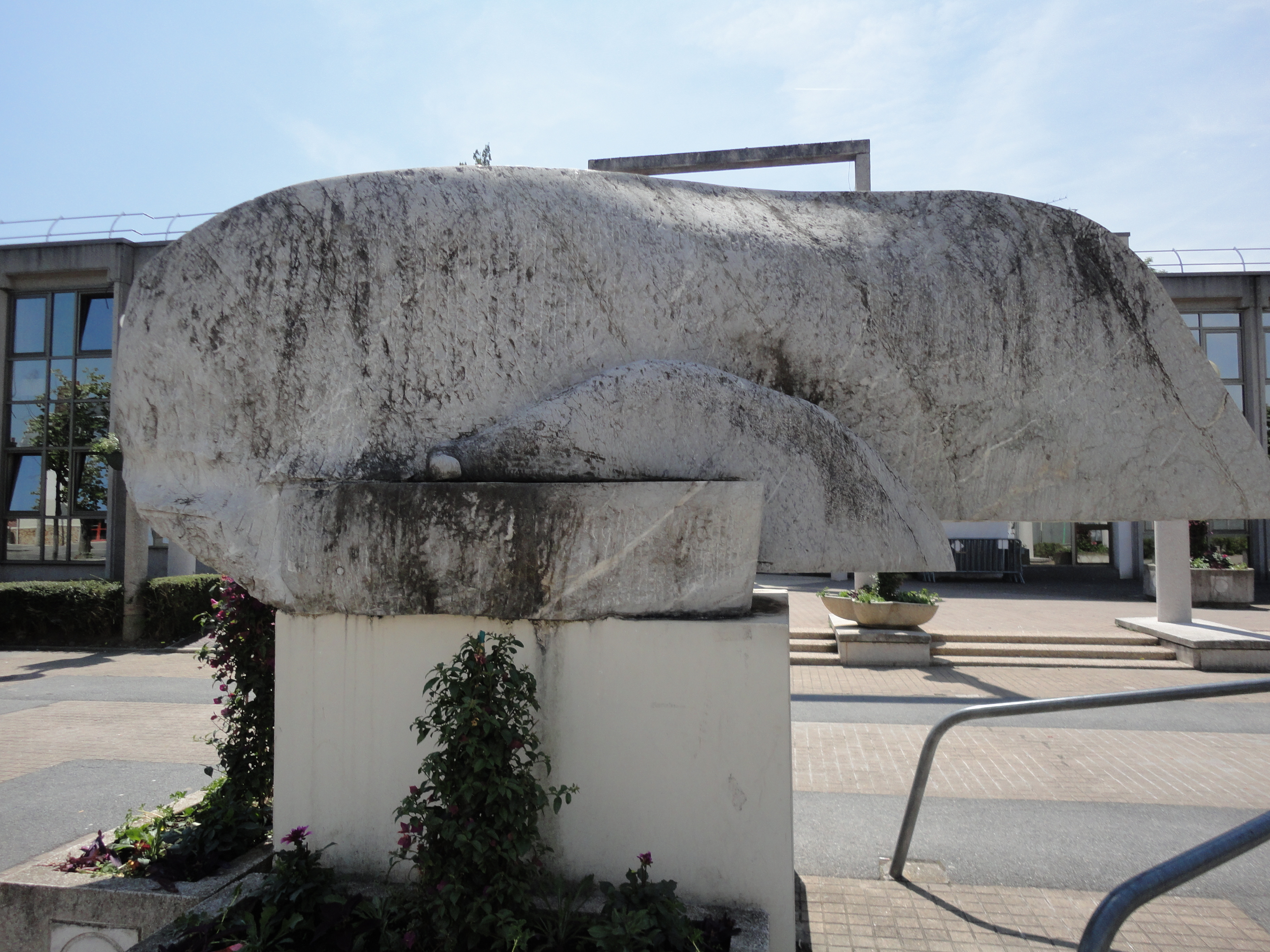 A sculpture in front of City Hall of Torcy named Formes aquatiques